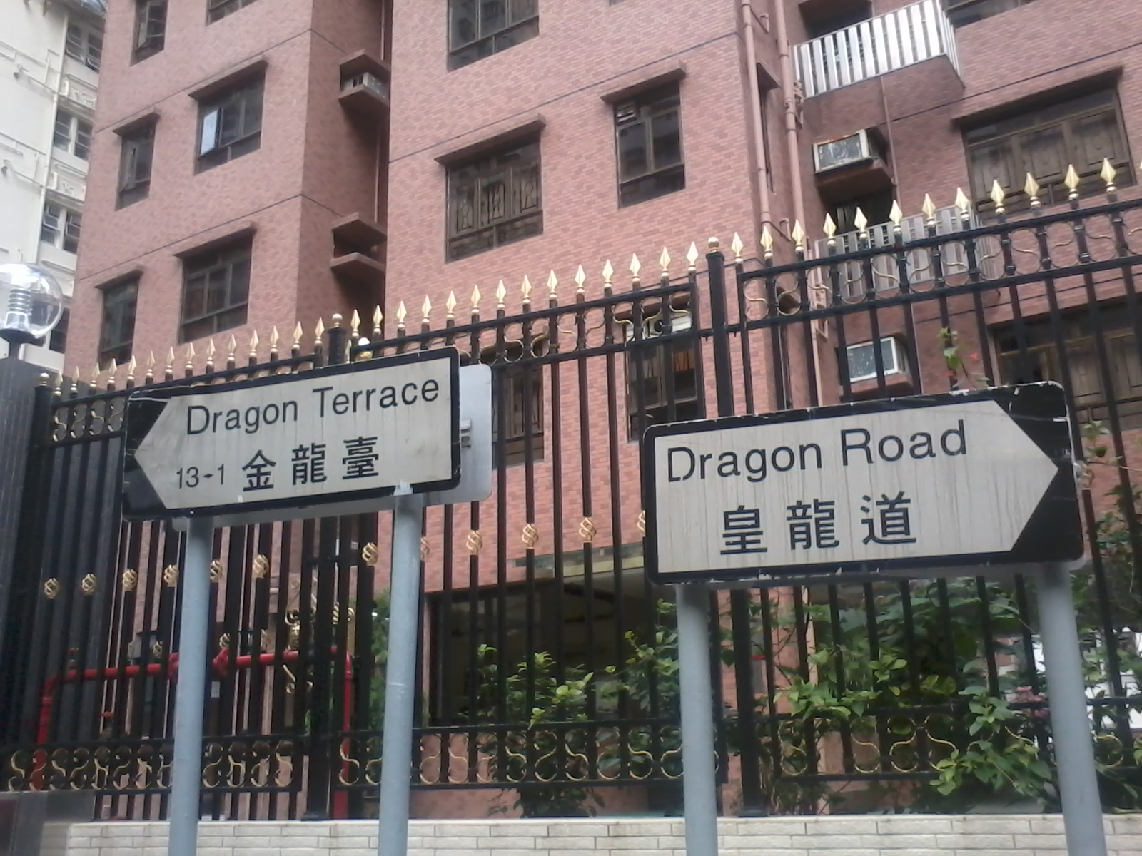 大坑 金龍道, Hong Kong Red Swastika Society, Dragon Road, Tin Hau, Hong Kong